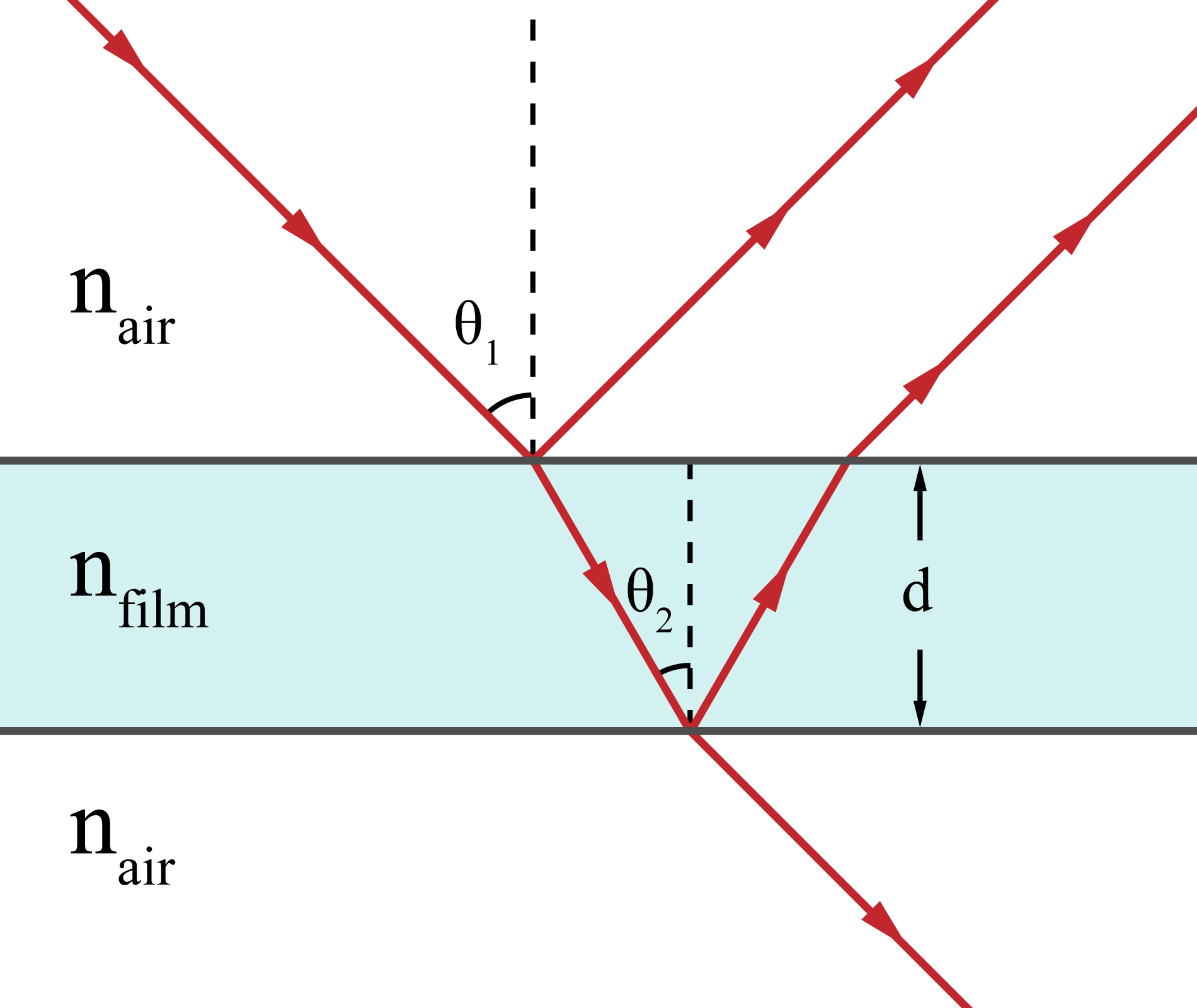 A wave of light reflecting off the upper and lower boundaries of a soap bubble. The reflected waves interfere with one another.